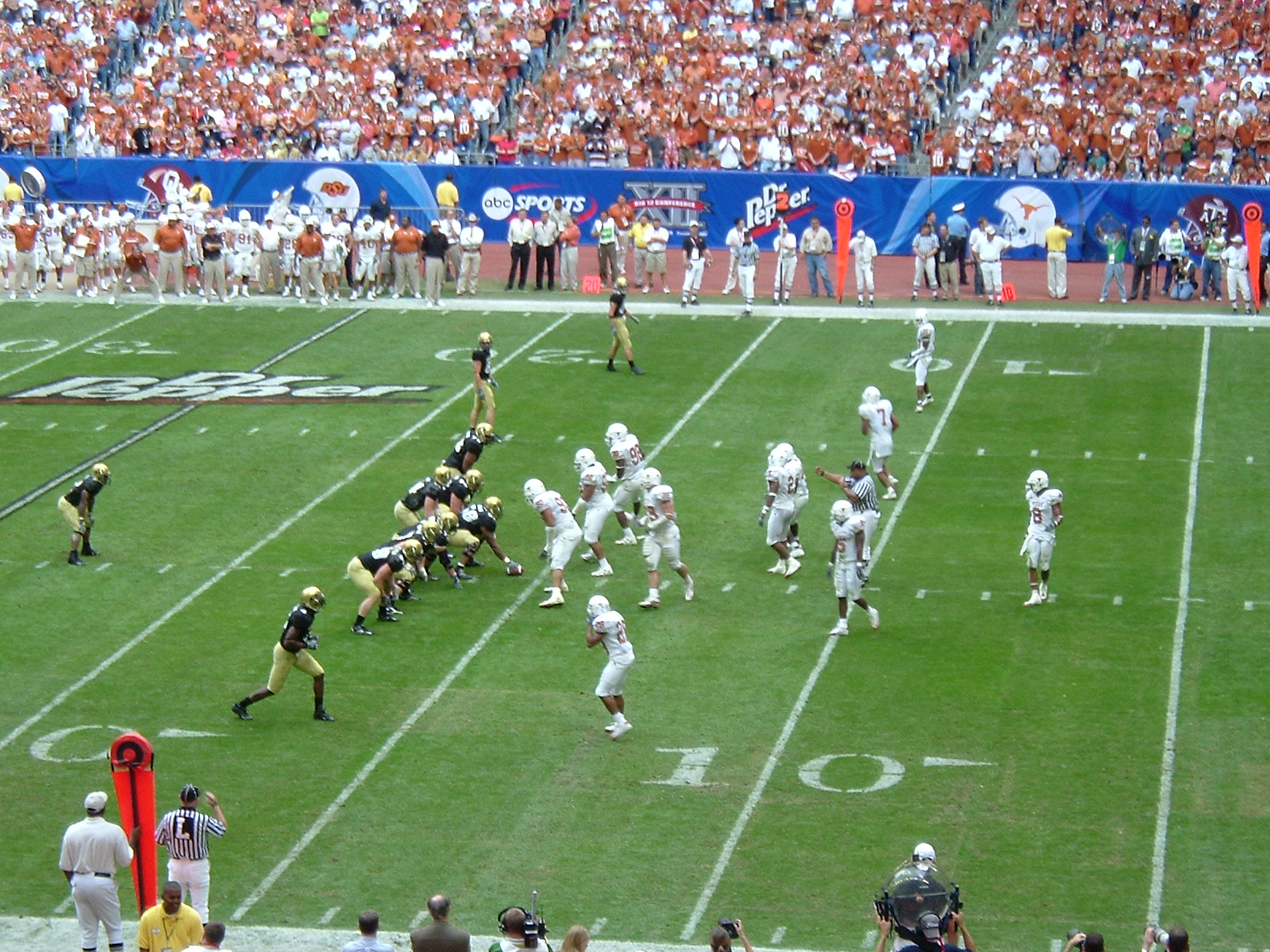 The 2005 Texas Longhorn football team lines up on defense against the Colorado Buffaloes.